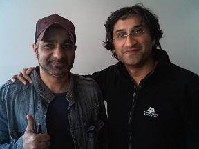 Directors stills